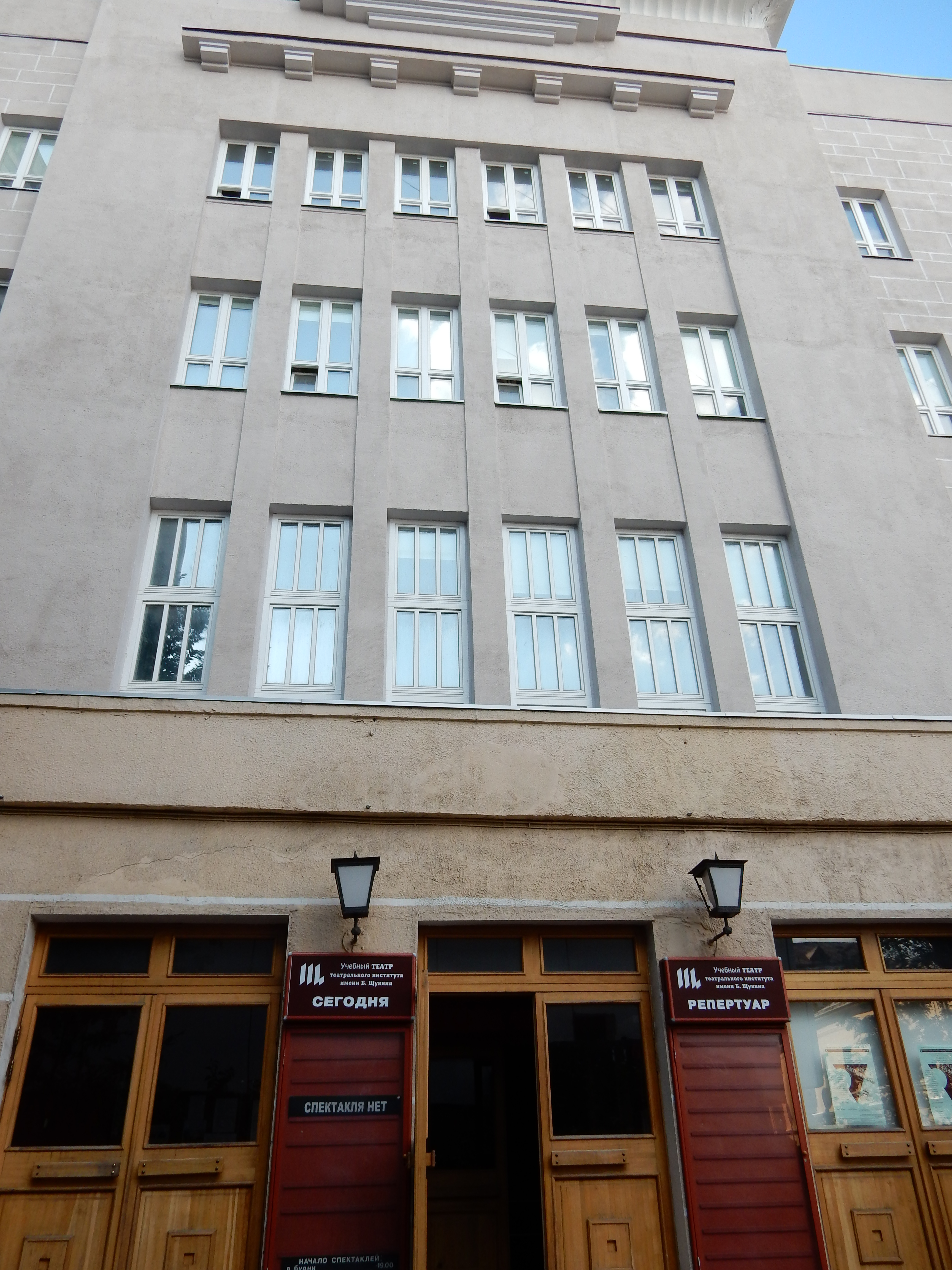 Moscow, Bolshoy Nikolopeskovsky Lane 12A. Boris Shchukin Theater Institute, student theater. July 2014.